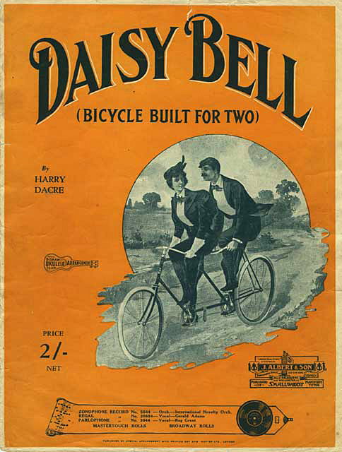 Cover of Australian sheet music for Daisy Bell by Harry Dacre. First published 1892.